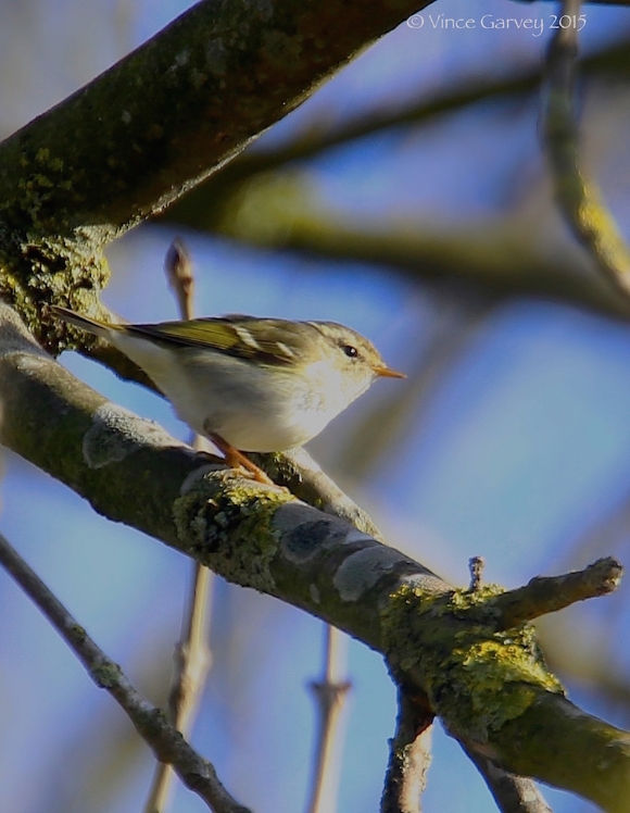 Yellow-browed Warbler Phylloscopus inornatus, Sedgeberrow, Worcester, UK